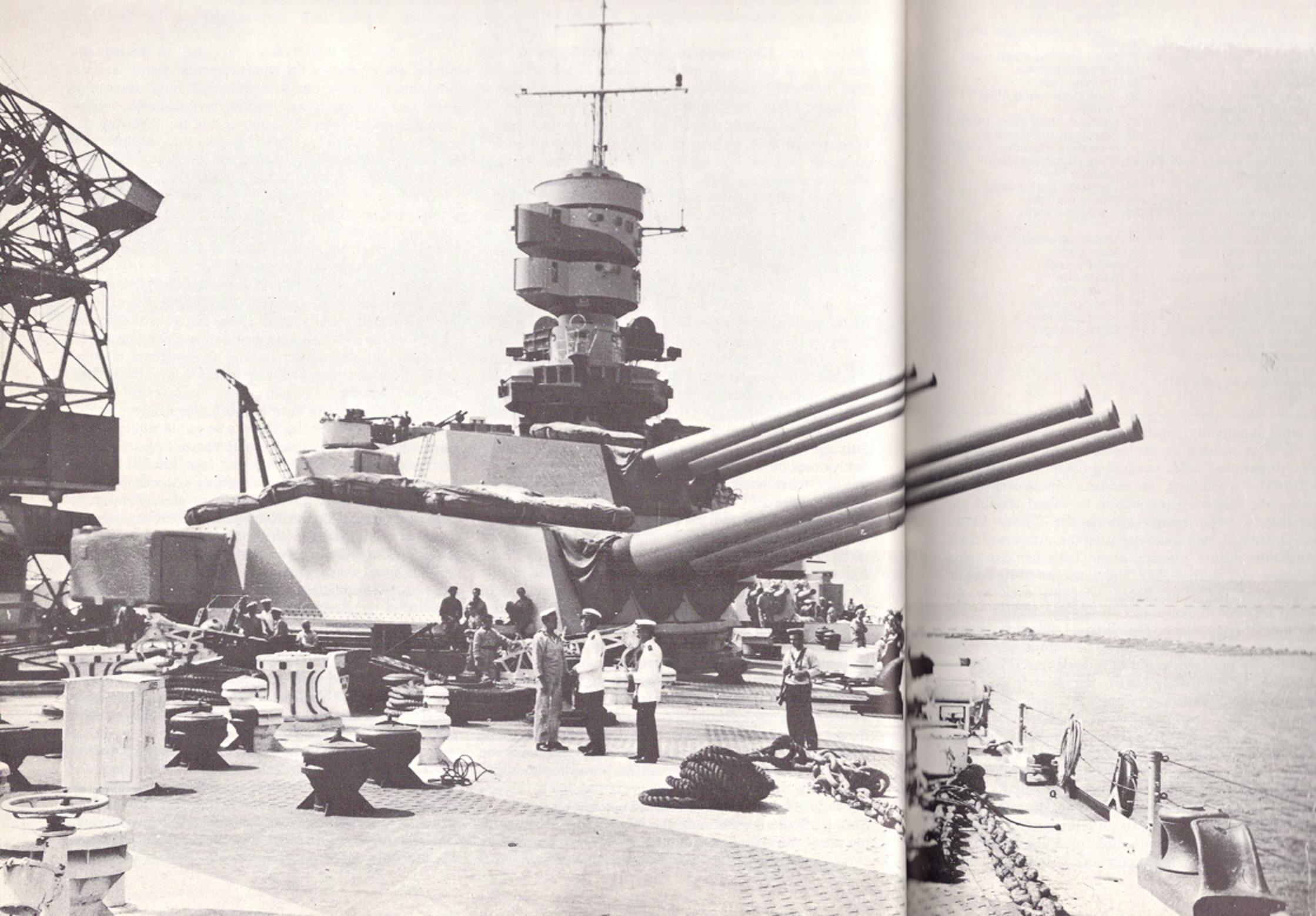 The forward triple 50-caliber gun turrets of the Italian dreadnought battleship Roma